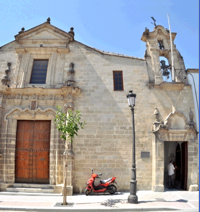 Old Hospital, Elderly Care Home, Jerez